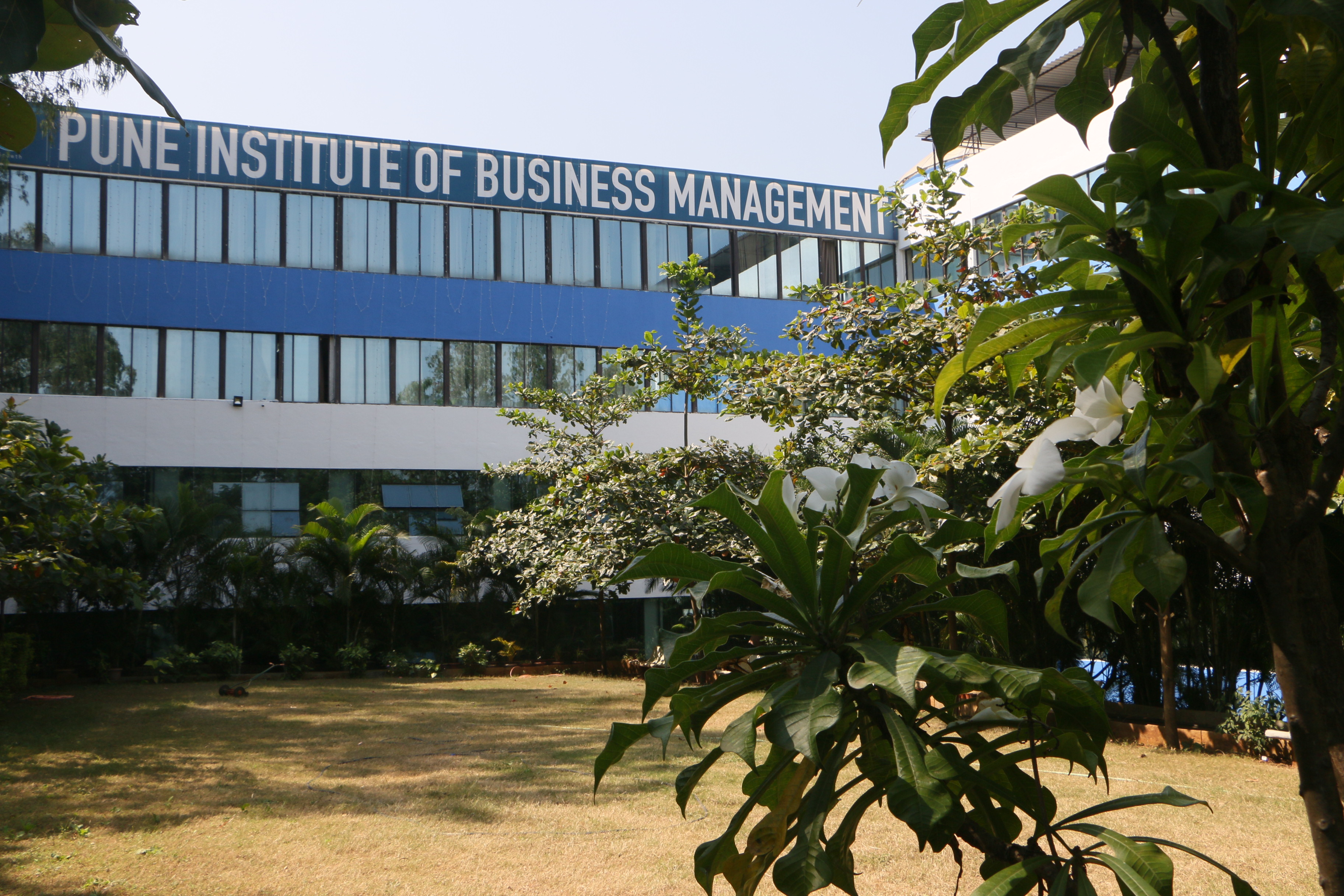 PIBM provides you the right resources & learning tools to enhance your employability and boost your Management Career .